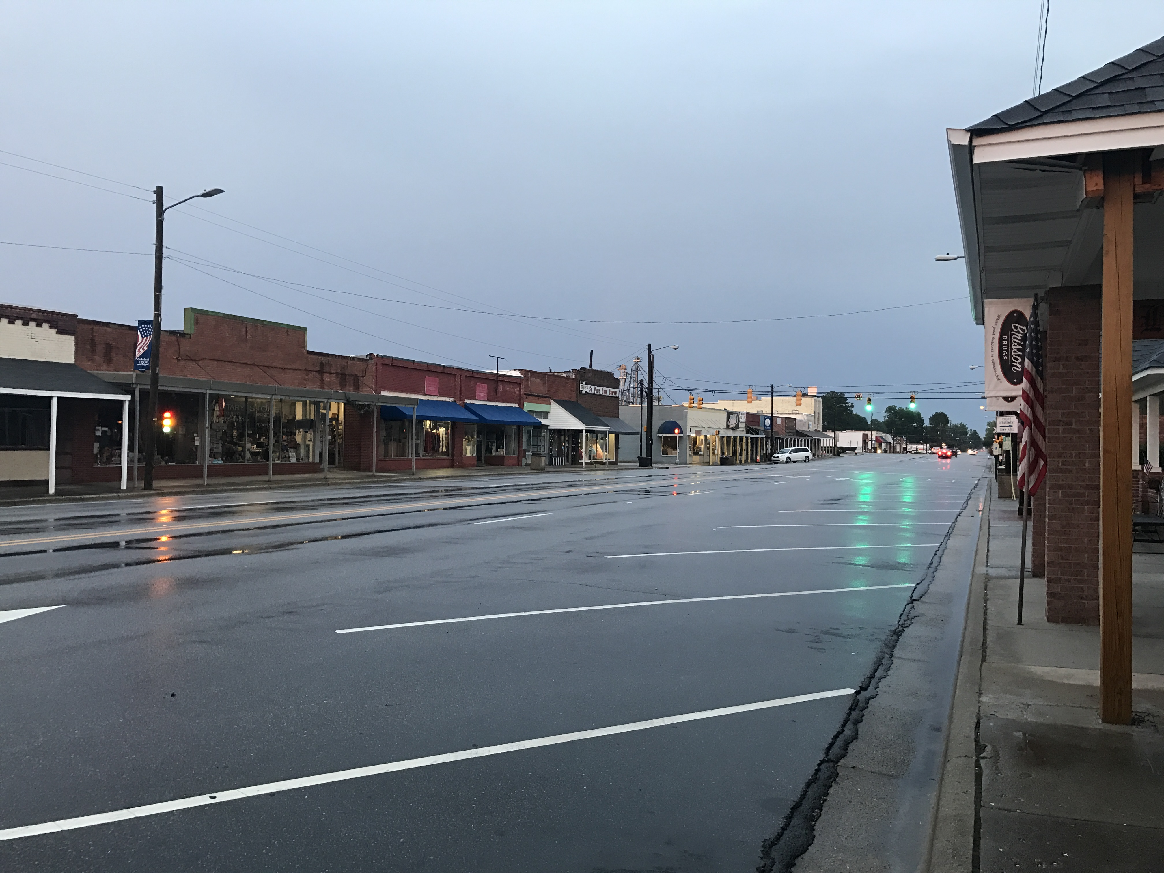 Main Street in St. Pauls